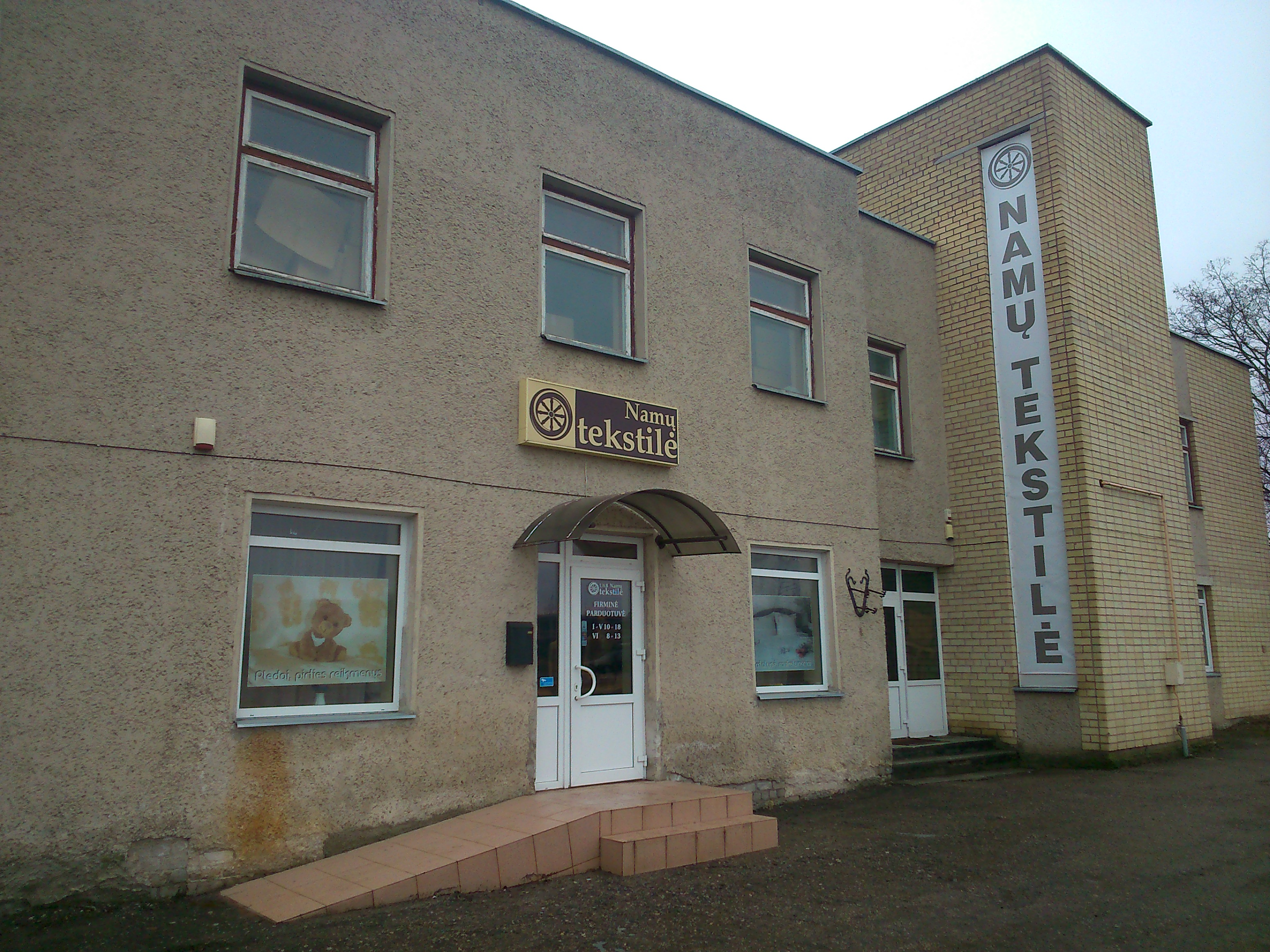 Namų tekstilė, UAB